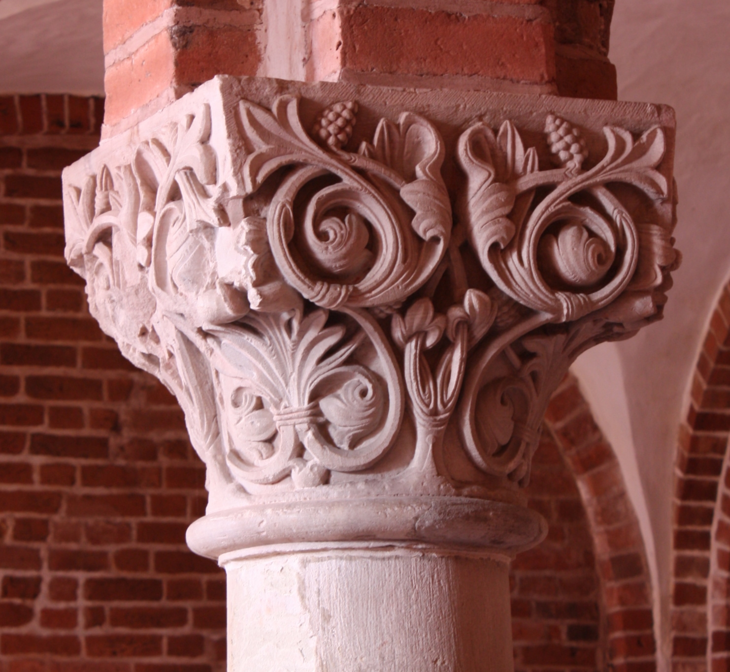 Jerichow (Sachsen-Anhalt) Church and Premonstratensians Monastery, the romanesque kapital of column in refektory